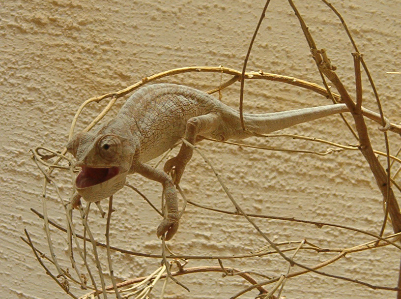 A chameleon in the Ramon crater, Israel.